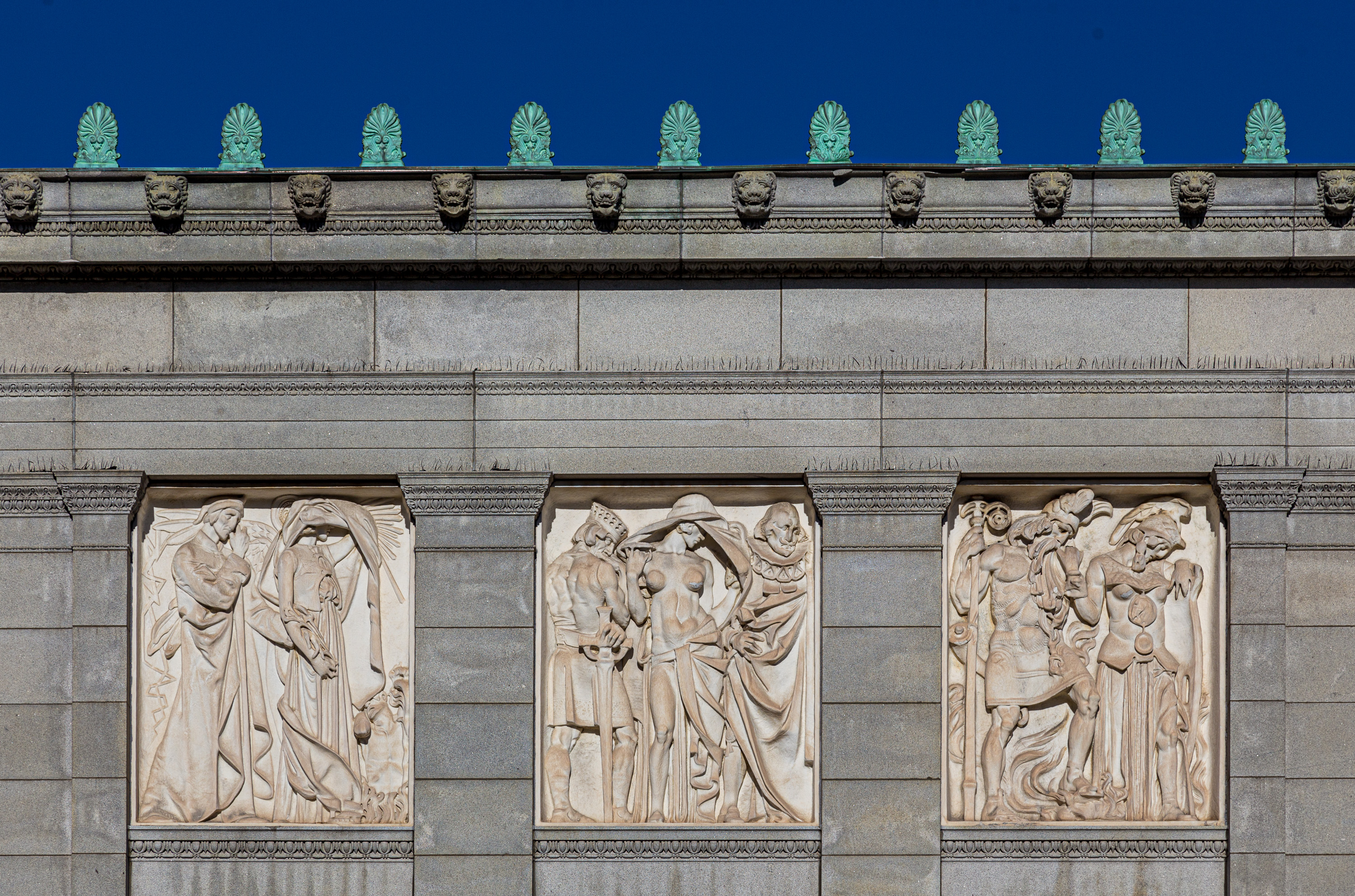 Deborah Cook Sayles Public Library. The six bas-reliefs above the library windows depict scenes from literature and mythology.